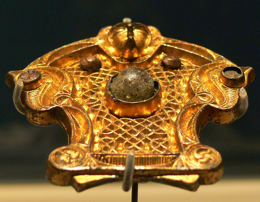 Celtic ornamental style. Origin: Scotland, seventh century, copper and crystal glass. Exhibition Source: Celts and Scandinavians, artistic encounters, 7th-12th century, 1st October 2008 - January 12, 2009, Musée National du Moyen-Âge - Thermes et hôtel de Cluny.